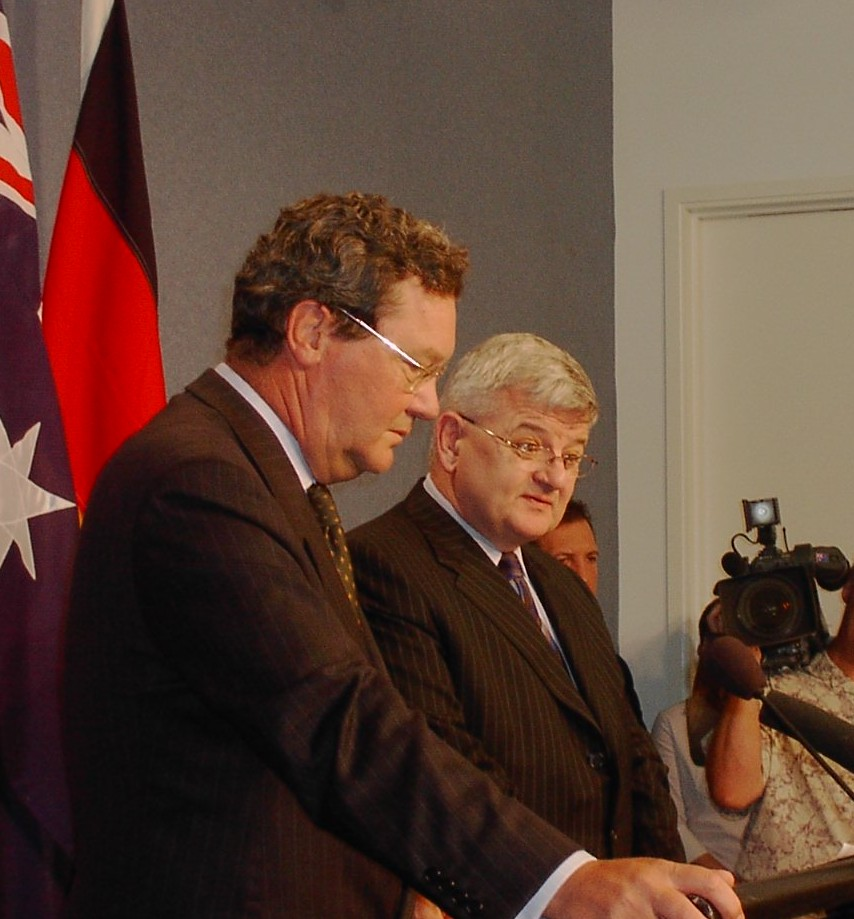 Alexander Downer (left) Photo by User:Adam Carr